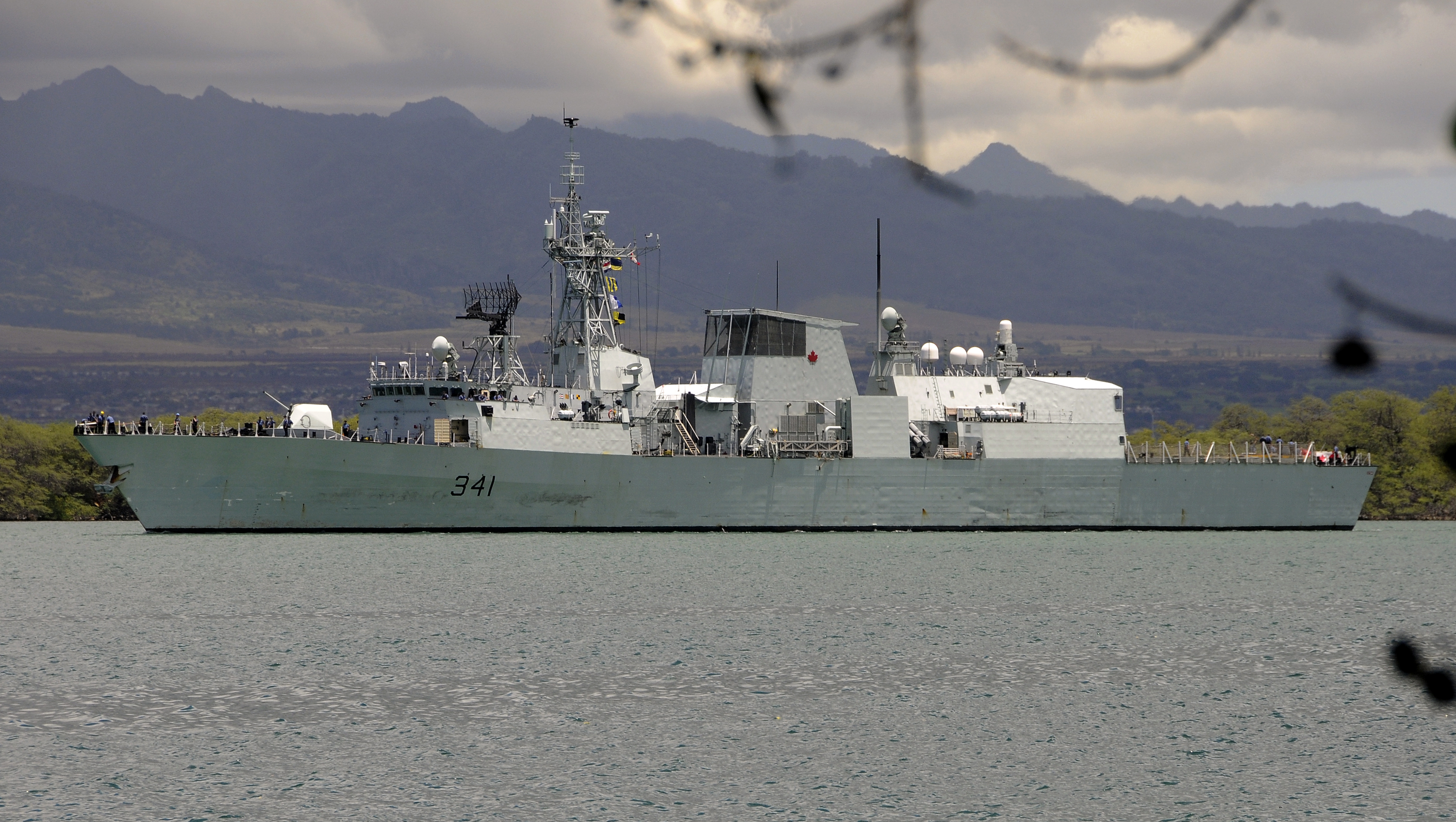 The Canadian Halifax-class frigate HMCS Ottawa (FFH 341) departs Naval Station Pearl Harbor, Hawaii, July 8, 2008, to participate in Rim of the Pacific (RIMPAC) 2008. RIMPAC is biannual exercise hosted by U.S. Pacific Fleet that brings together military forces from Australia, Canada, Chile, Peru, Japan, the Netherlands, Singapore, the United Kingdom and the Republic of Korea.